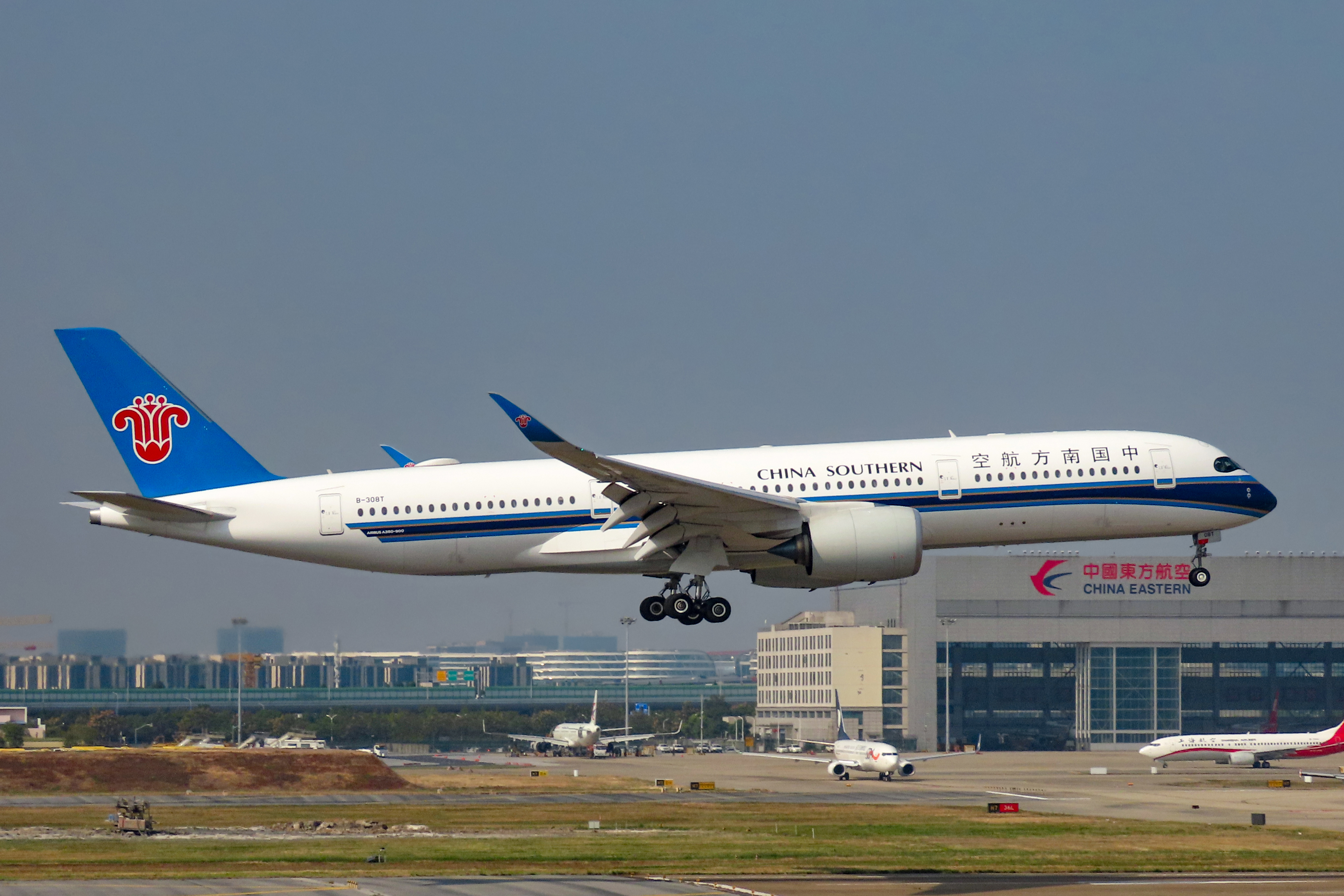 Nanfang 3523 from Guangzhou. First time to see CZ's A350, but no surprise on liveries.